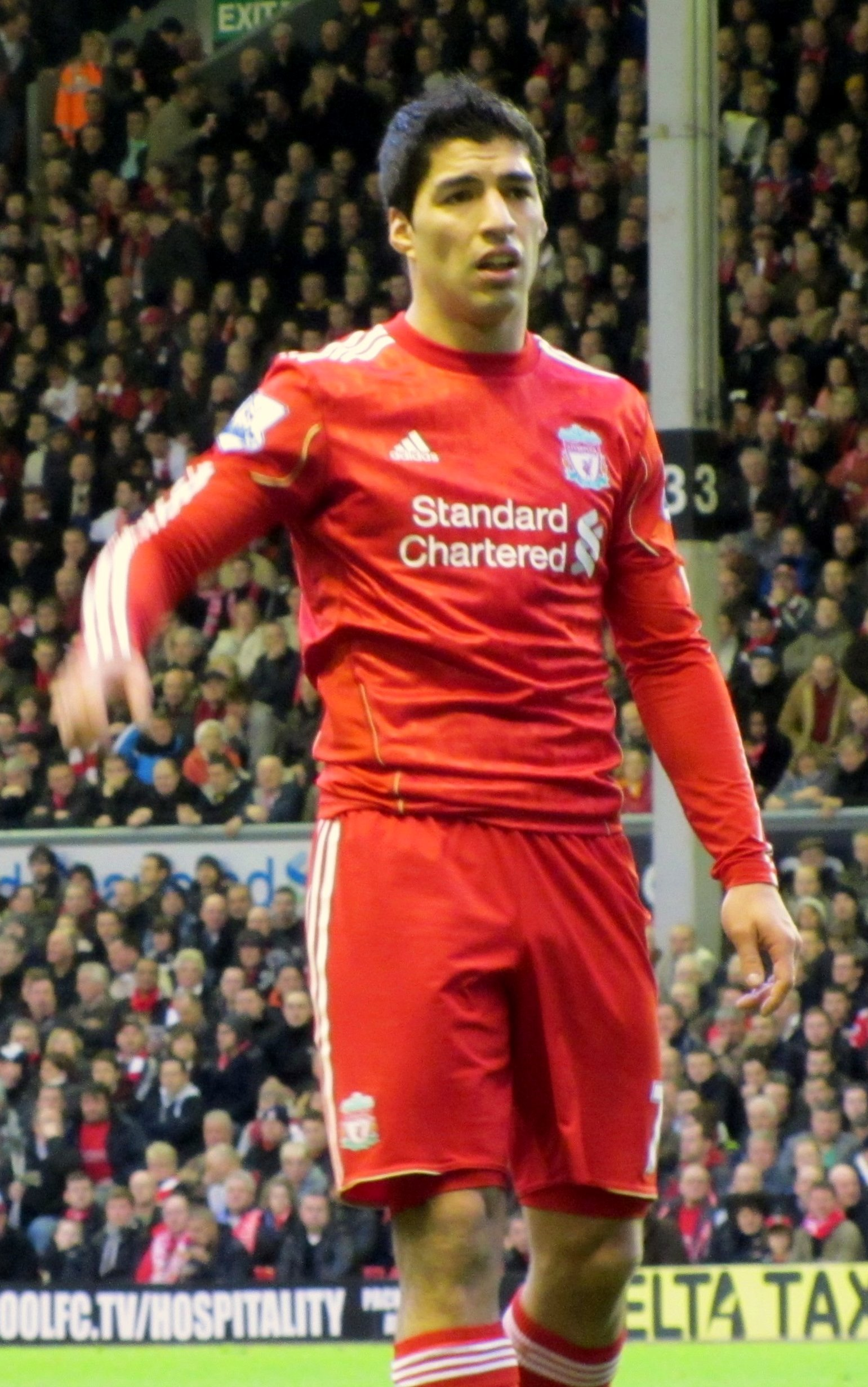 Luis Suárez Díaz during the game against Blackburn Rovers